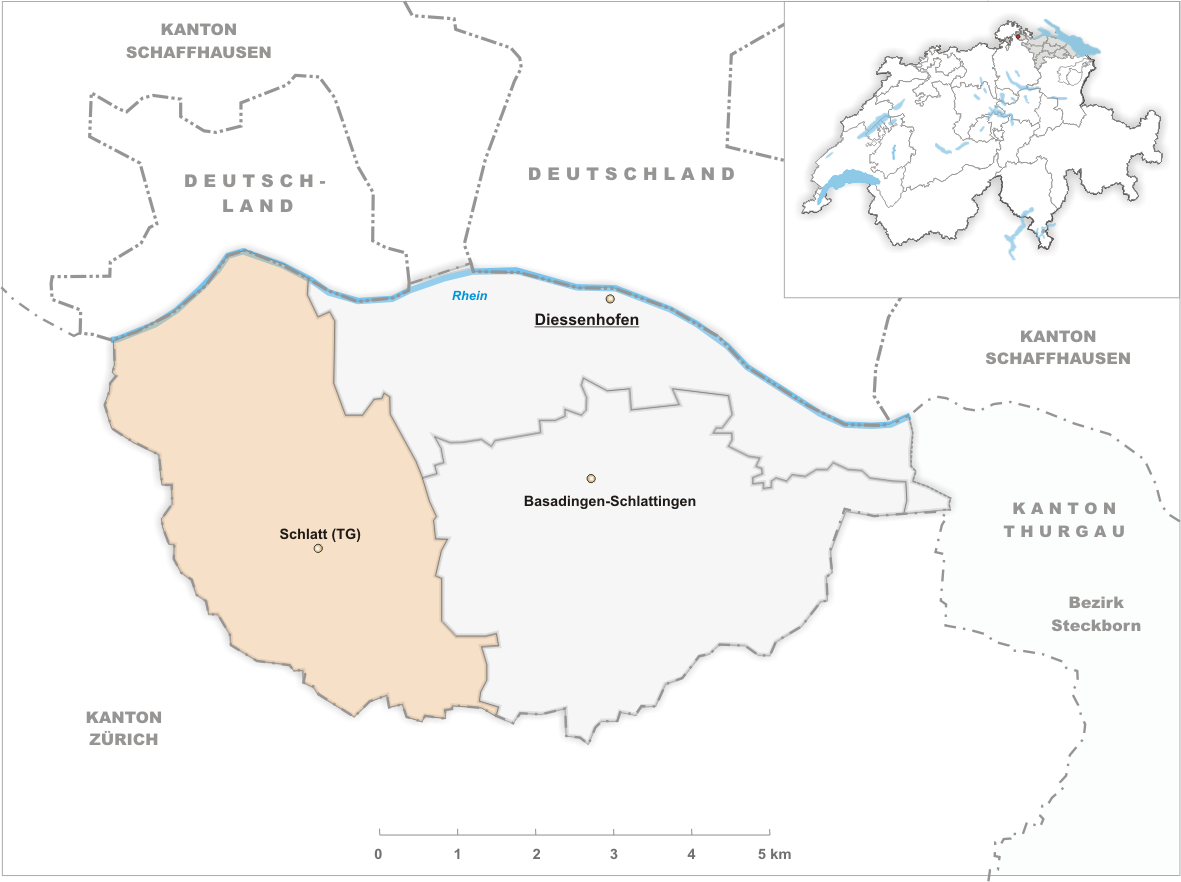 Municipality Schlatt (TG)